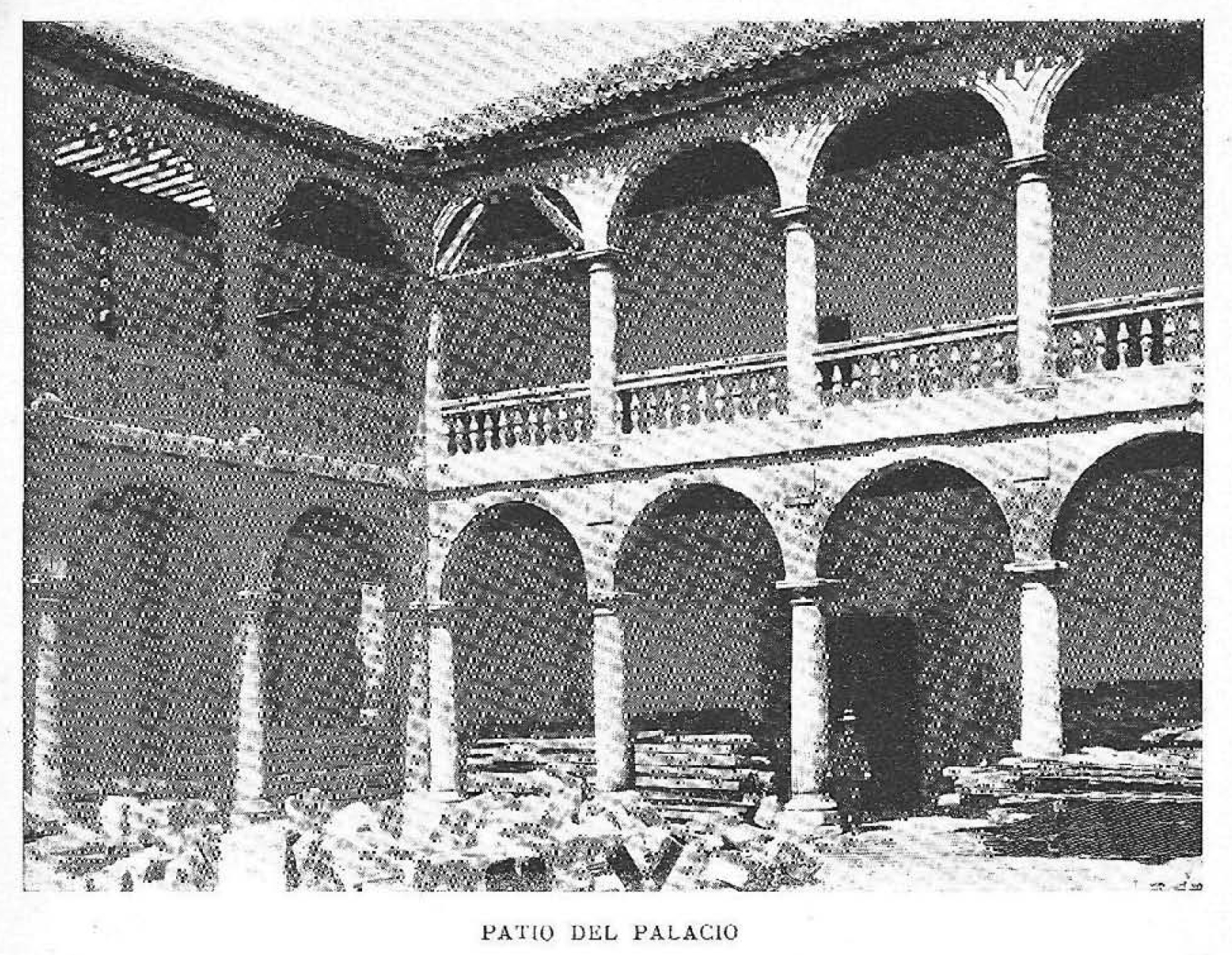 Patio del palacio de Altamira, en Torrijos.